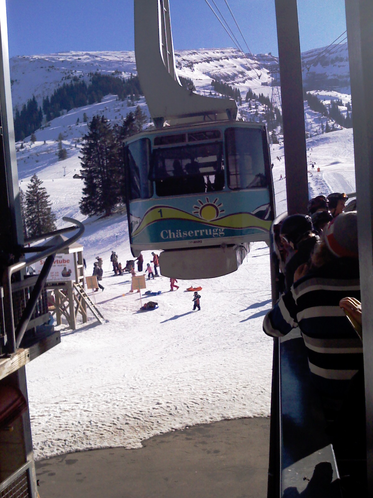 Chäserrug aerial ropeway - Chäserrugg-aertelefero